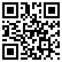 Telugu Wikipedia Main Page QR Code